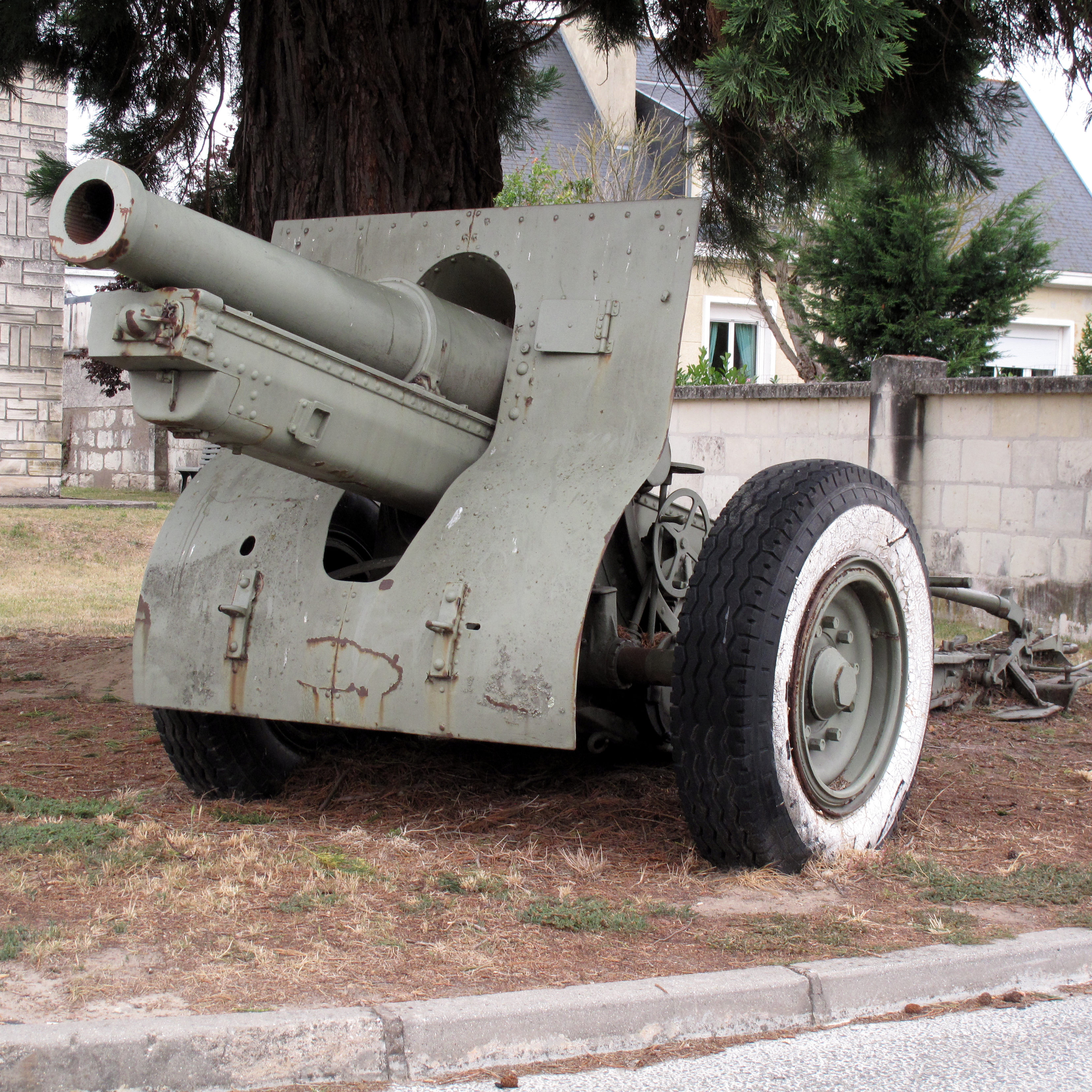 Canon de 155 C modèle 1917 Schneider. On display at Saumur Général Estienne museum.